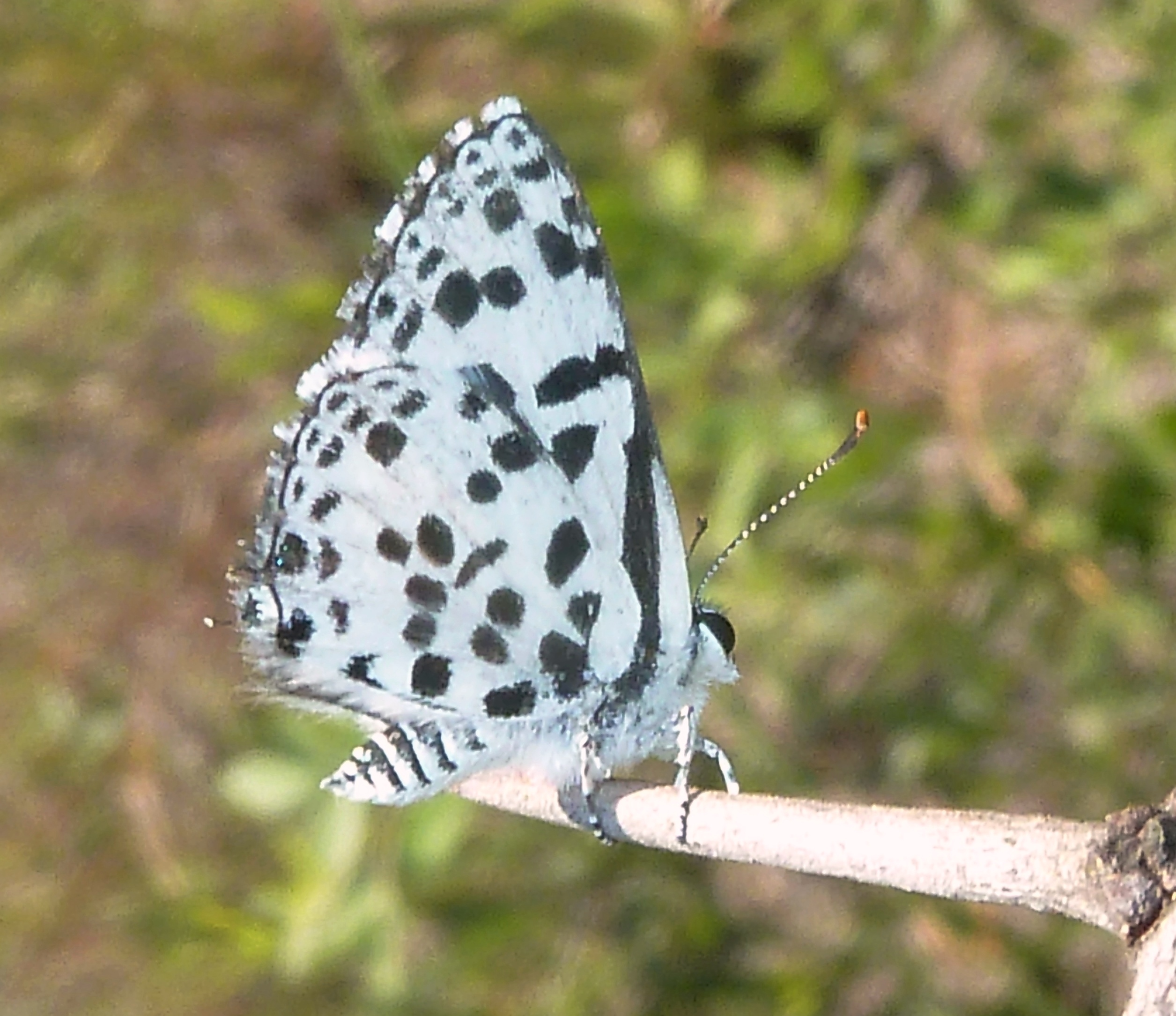 Hintza blue near Imbabala lodge in Buffelsdrift conservancy, Pretoria